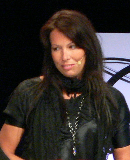 Anna Carrfors Bråkenhielm on Kunskapens dag, October 7 2008, in Stockholm.